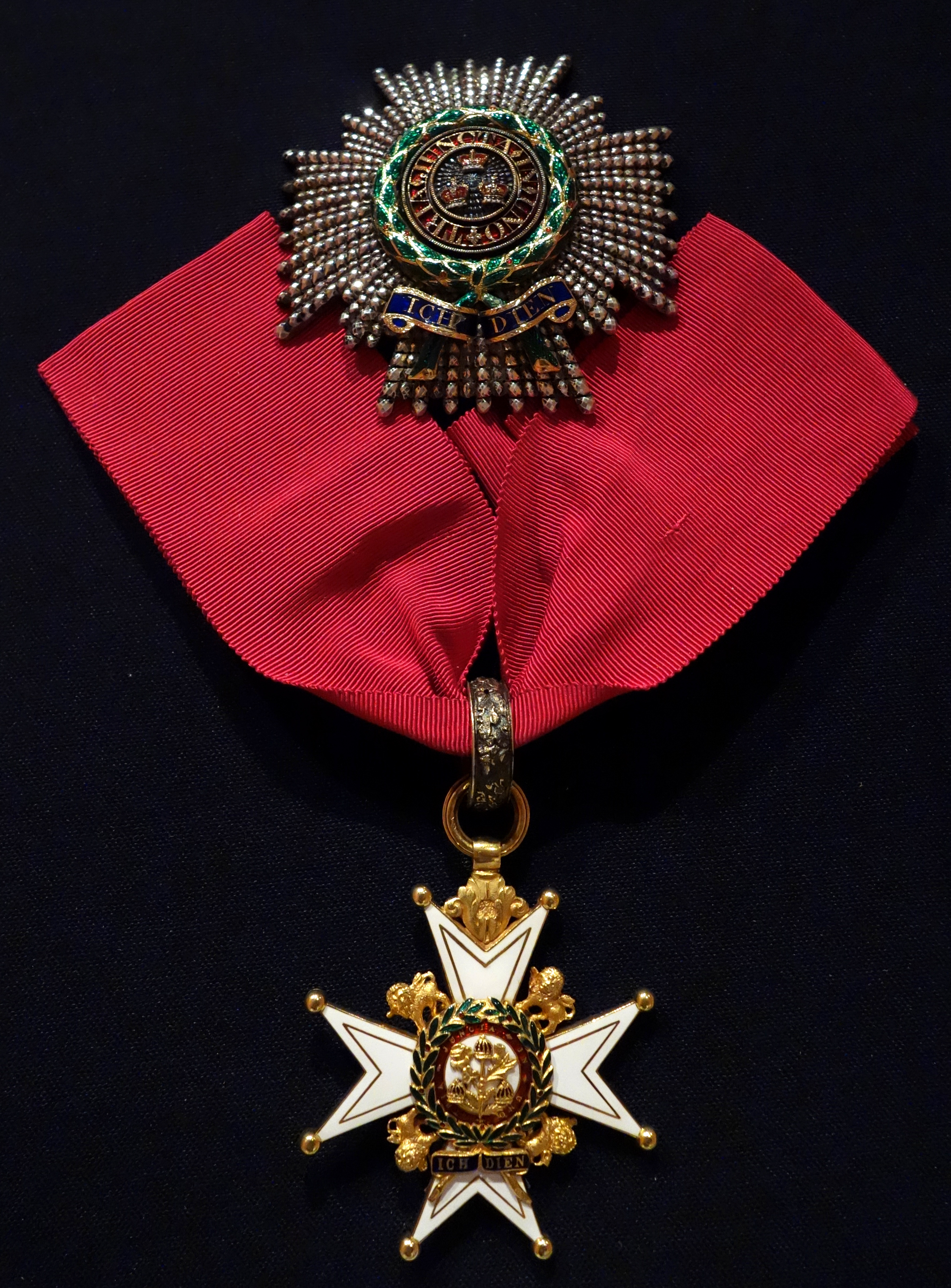 Exhibit in the Glenbow Museum, 130 9th Ave S.E., Calgary, Alberta, Canada. This work is in the public domain.